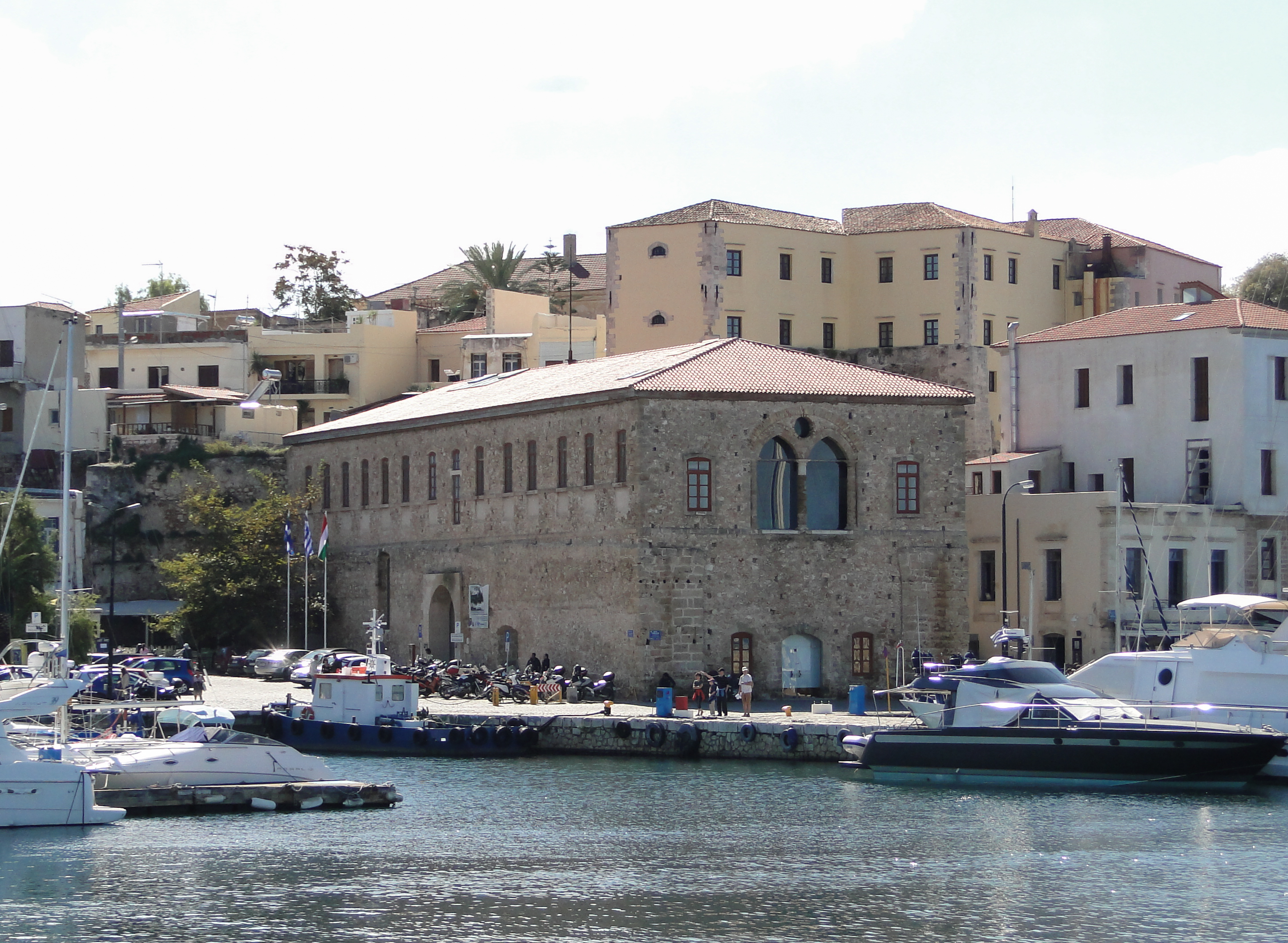 Center of Mediterranean Architecture hosted in the Grand Arsenal building, Chania, Crete, Greece